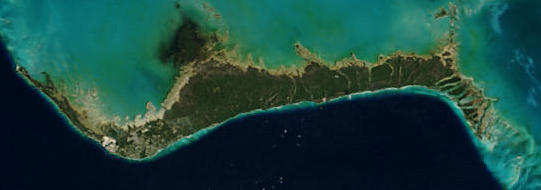 This satellite image of Grand Bahama has been cropped from an image of Florida, Cuba, and the Bahamas. "Underwater features are actually more striking than surface features in this Moderate Resolution Imaging Spectroradiometer (MODIS) image, acquired on January 24, 2004, by NASA’s Terra satellite. The Great Bahama Bank and Little Bahama Bank are a brilliant blue in contrast to the black of the surrounding ocean. The Banks are shallow coral reefs that reflect light through the ocean, giving it a bright blue color. The ocean becomes suddenly deep on the western edge of the Grand Bahama Bank, and here it becomes an inky black. Coral reefs are also visible around the Florida Keys and in the Golfo de BatabanÃ³uth of Cuba. Near land, sediment may also be coloring the water. Like coral reefs, sediment reflects light through the water, giving it a bright color. A few fires were burning when this image was acquired, and they have been marked with red dots." Description at NASA's Visible Earth website